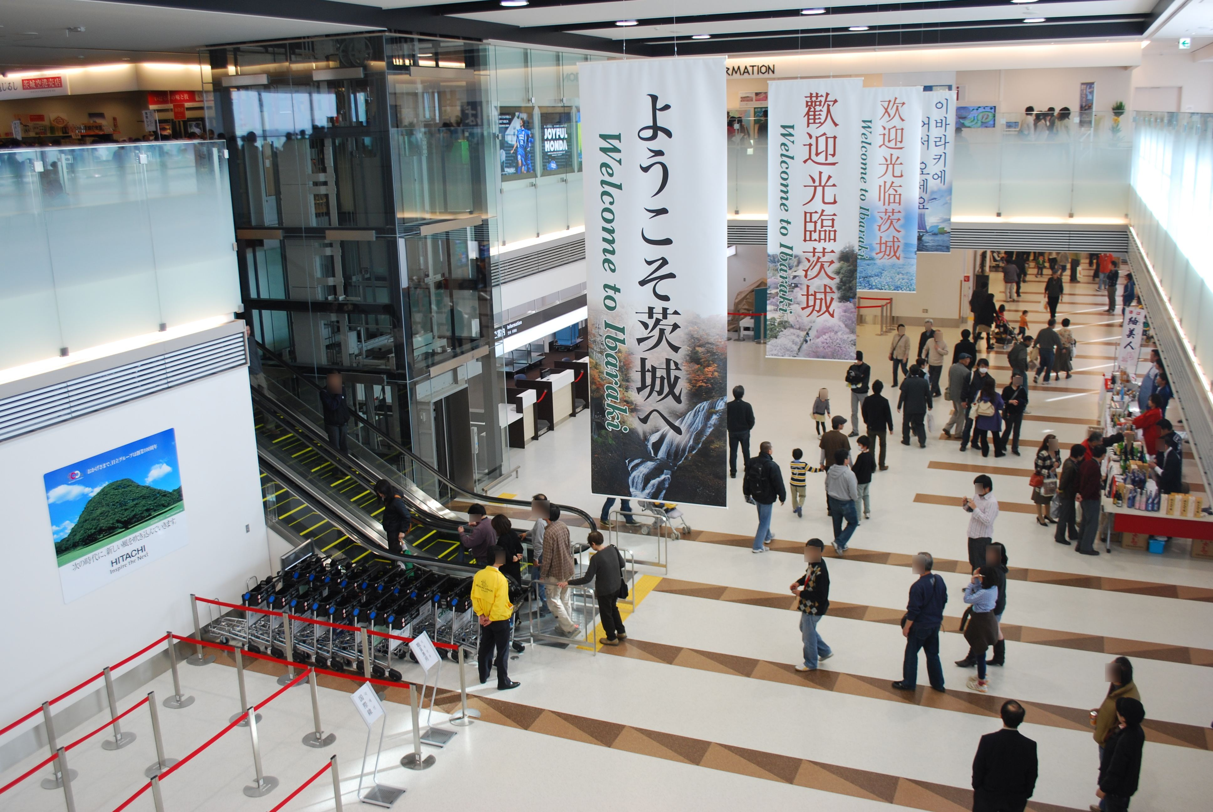 Ibaragi-airport-terminal,Omitama-city,Japan